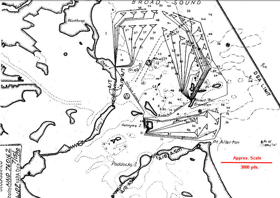 This map of the controlled mine fields protecting Boston Harbor in 1945 comes from the report "Supplement to the Harbor Defense Project: Harbor Defenses of Boston," U.S. Army Engineers, 31 January, 1945. It shows 30 Groups of mines (the triangular symbols at the ends of the connecting cables), nominally of 19 mines per group, controlled (variously) from Ft. Dawes on Deer Island, Ft. Warren on Georges Island, and from Great Brewster Island. The map also indicates the boom and netting barriers that guarded the inner harbor by closing the channel between Long Island and Deer Island, the gap between Long Island and Moon Island, and the channels on either end of Peddocks Island. This image is an enlargement of a portion of the original map, which has been sharpened and had an approximate scale (in red) added for use on Wikipedia.